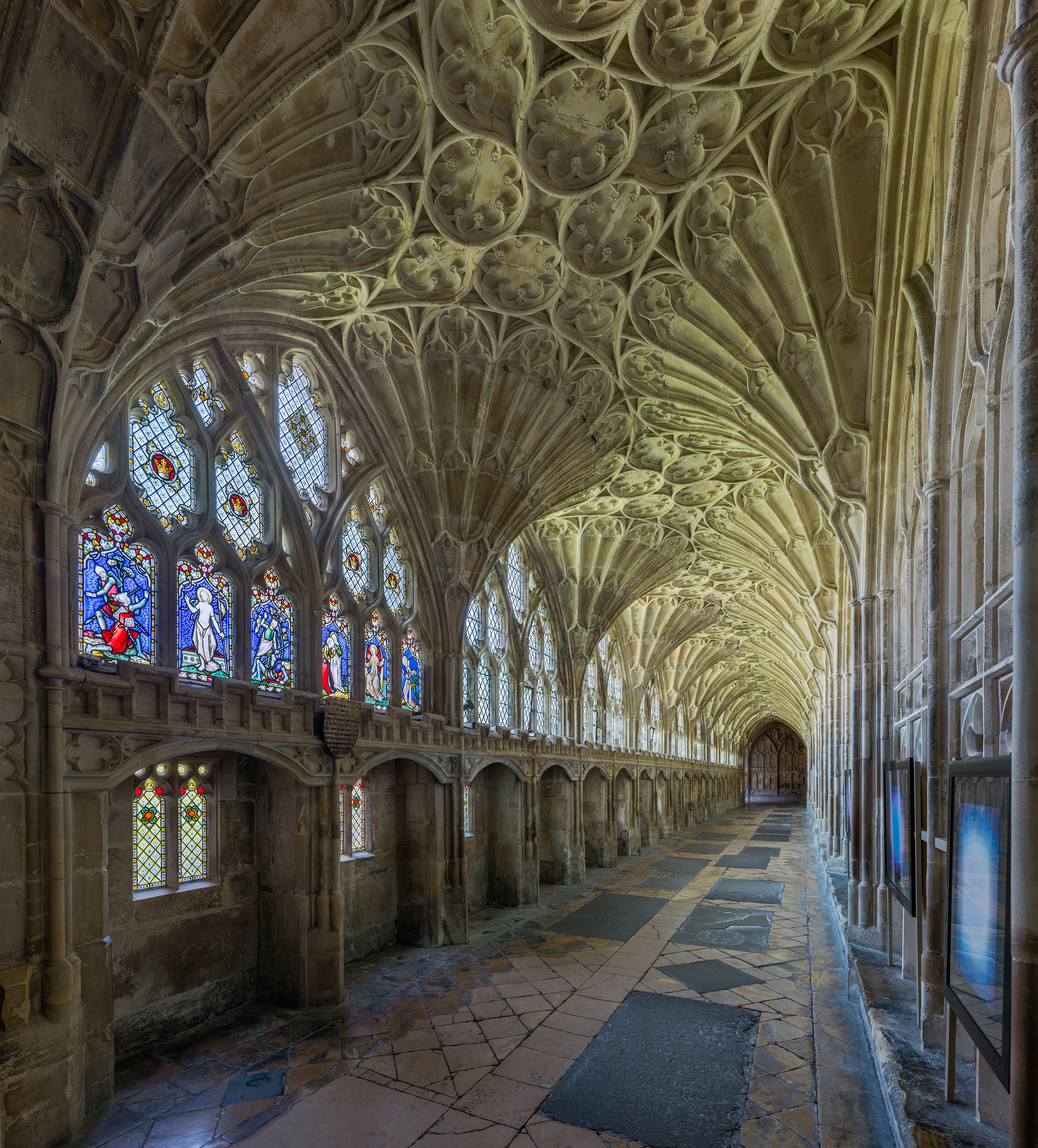 The cloister of Gloucester Cathedral in Gloucestershire, England.